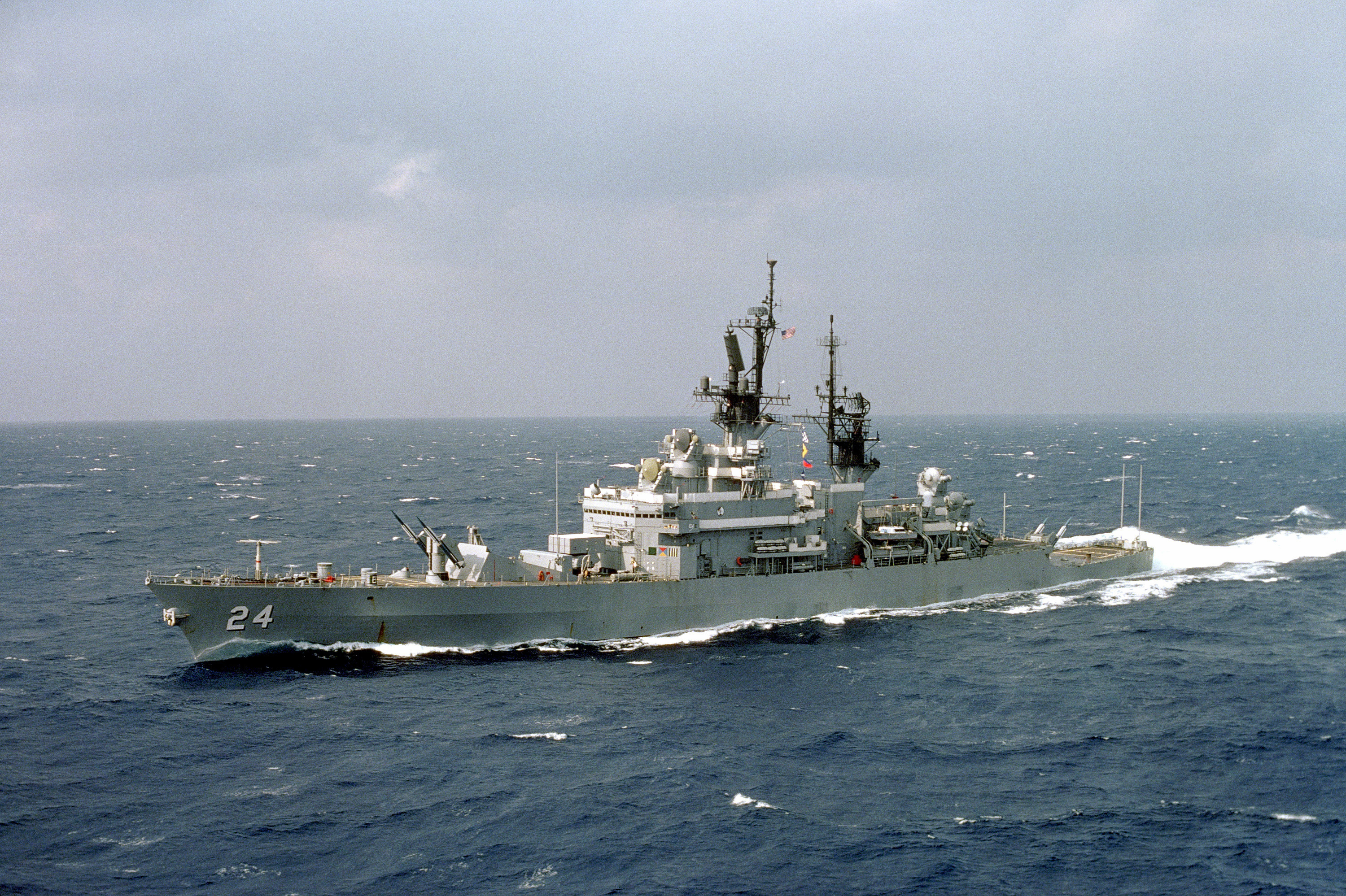 The U.S. Navy guided missile cruiser USS Reeves (CG-24) underway at sea on 15 October 1984.